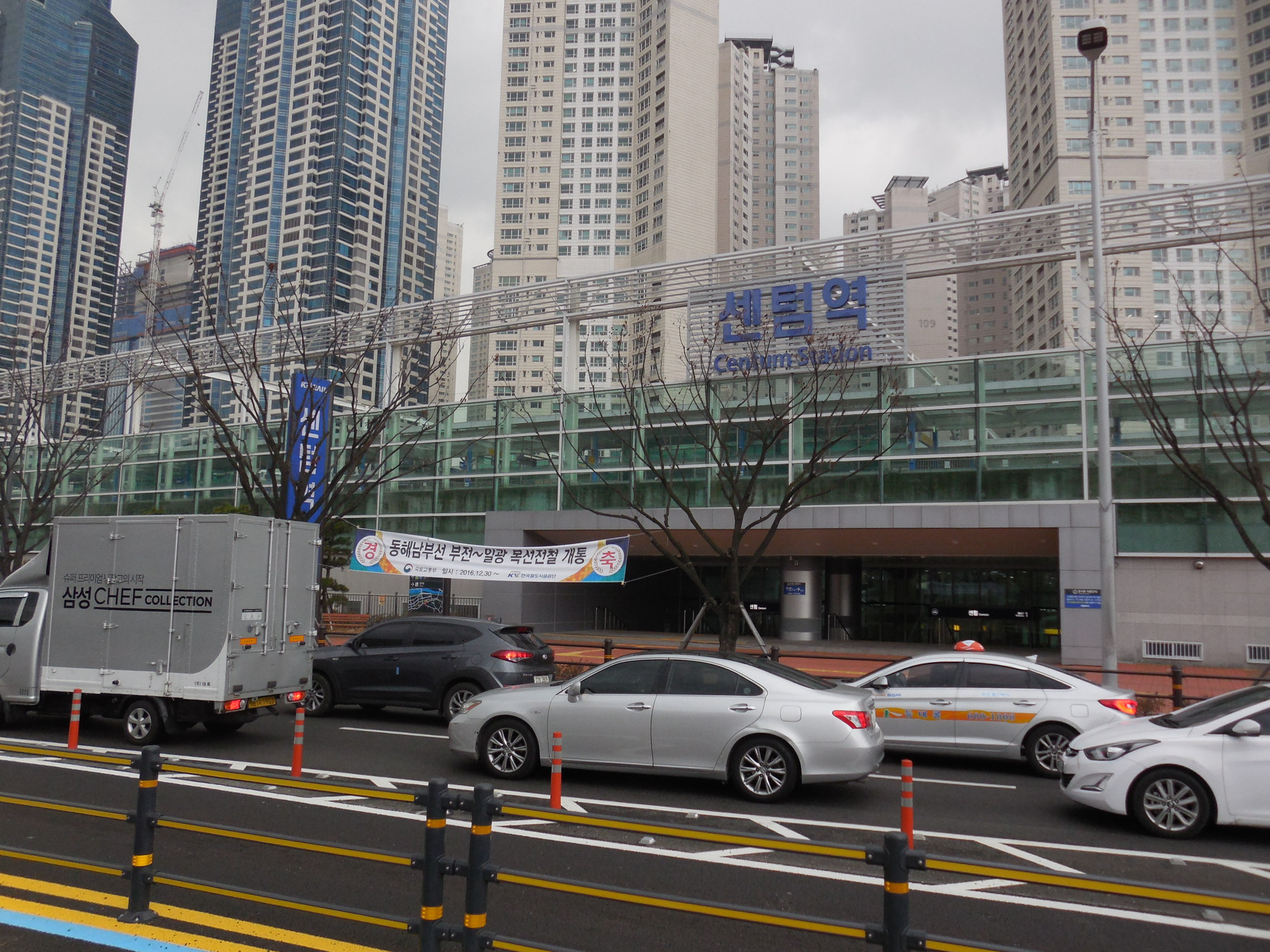 Korail Donghae Line Centum Station.